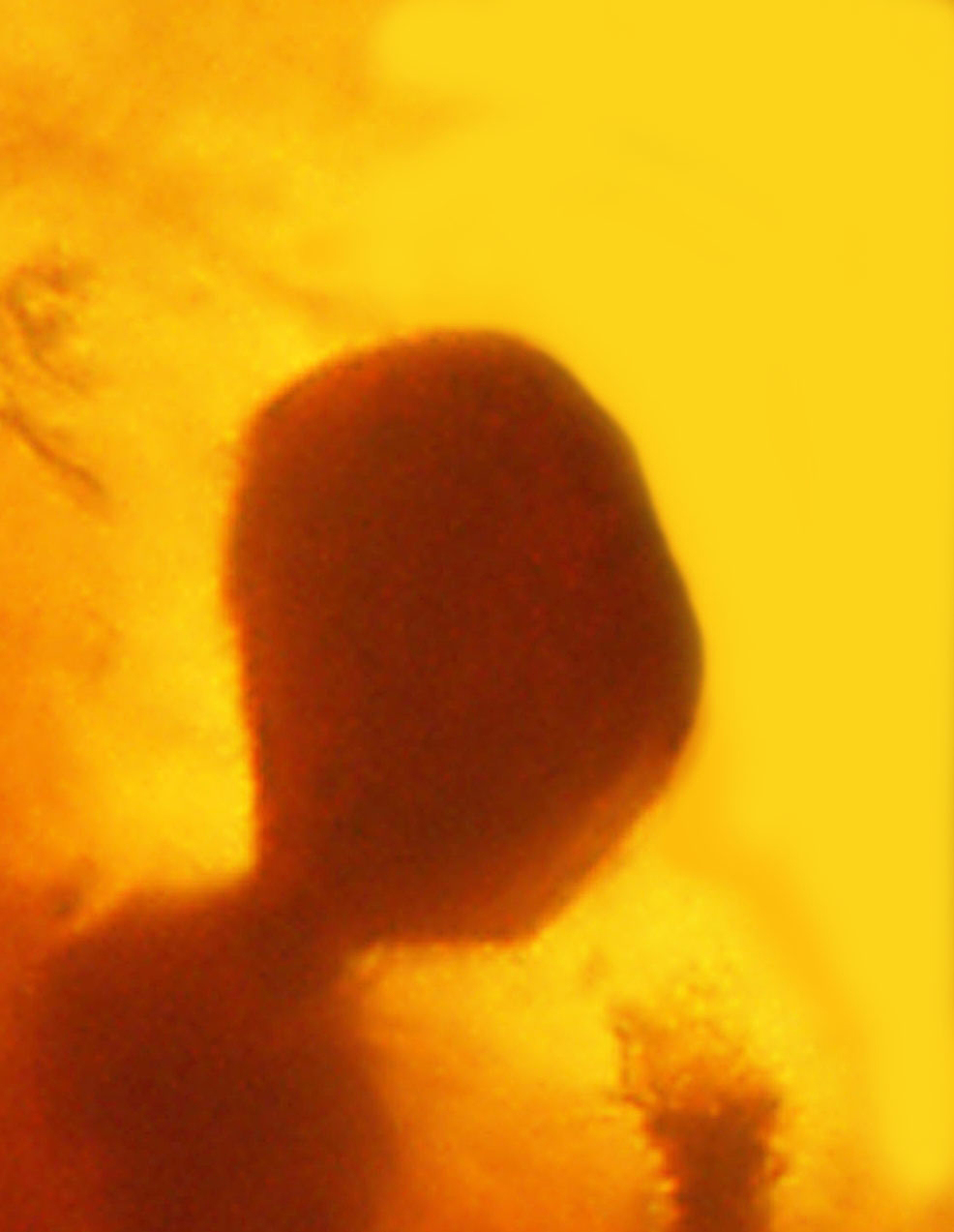 These oocysts that carry malaria were found in amber from the Dominican Republic, preserved from millions of years ago. (Photo courtesy of Oregon State University)